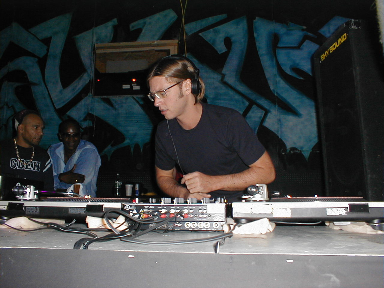 Total Science member Jason Greenhalgh (a.k.a Q Project) photographed at a rave in Springfield Massachusetts in 2004. Notice Goldie on the left.